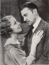 Helen Vinson and Clive Brook in Let's Try Again (1934, in Screenland August 1934.